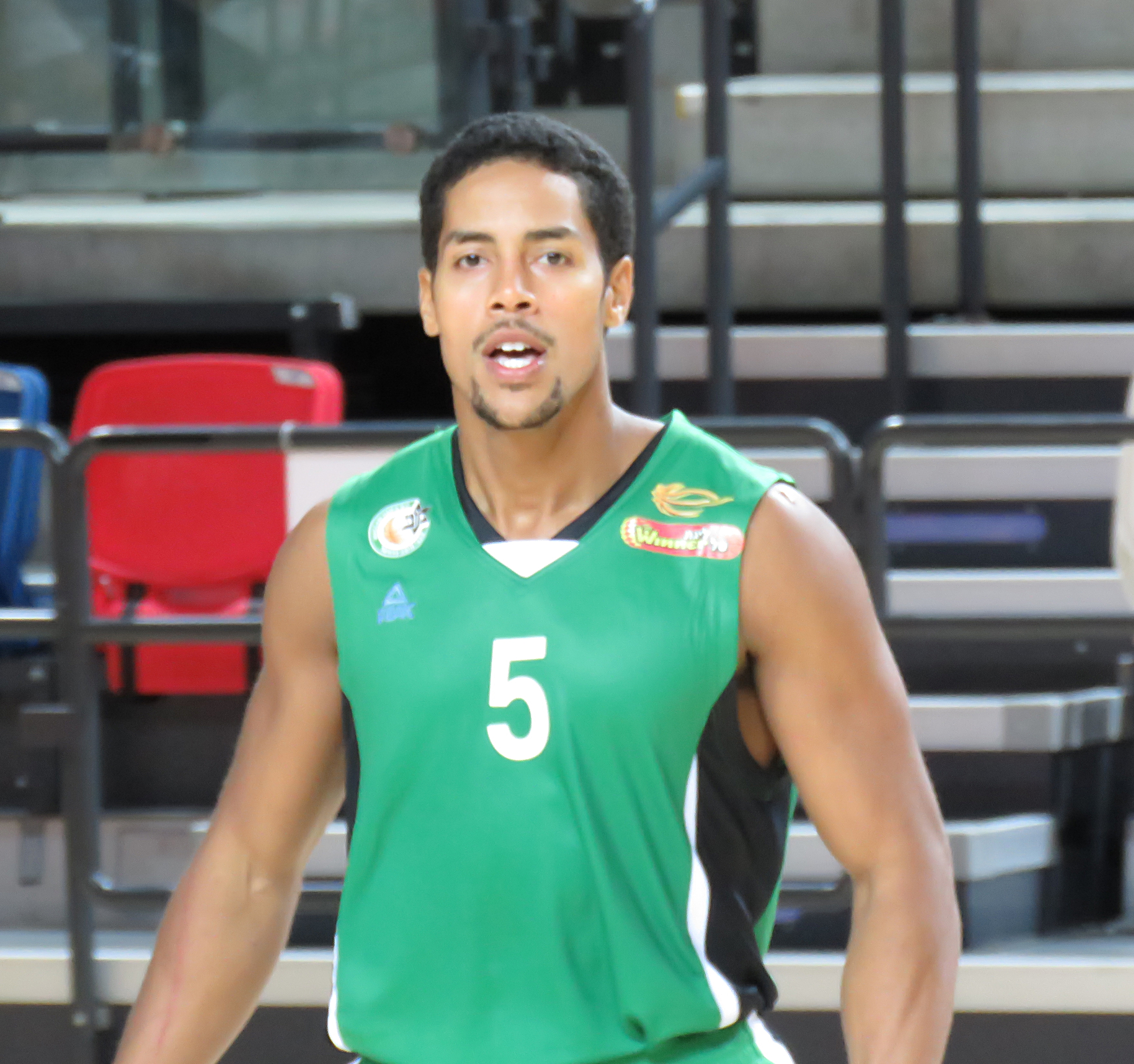 Hapoel Eilat vs. Maccabi Haifa B.C., 25 September, 2015